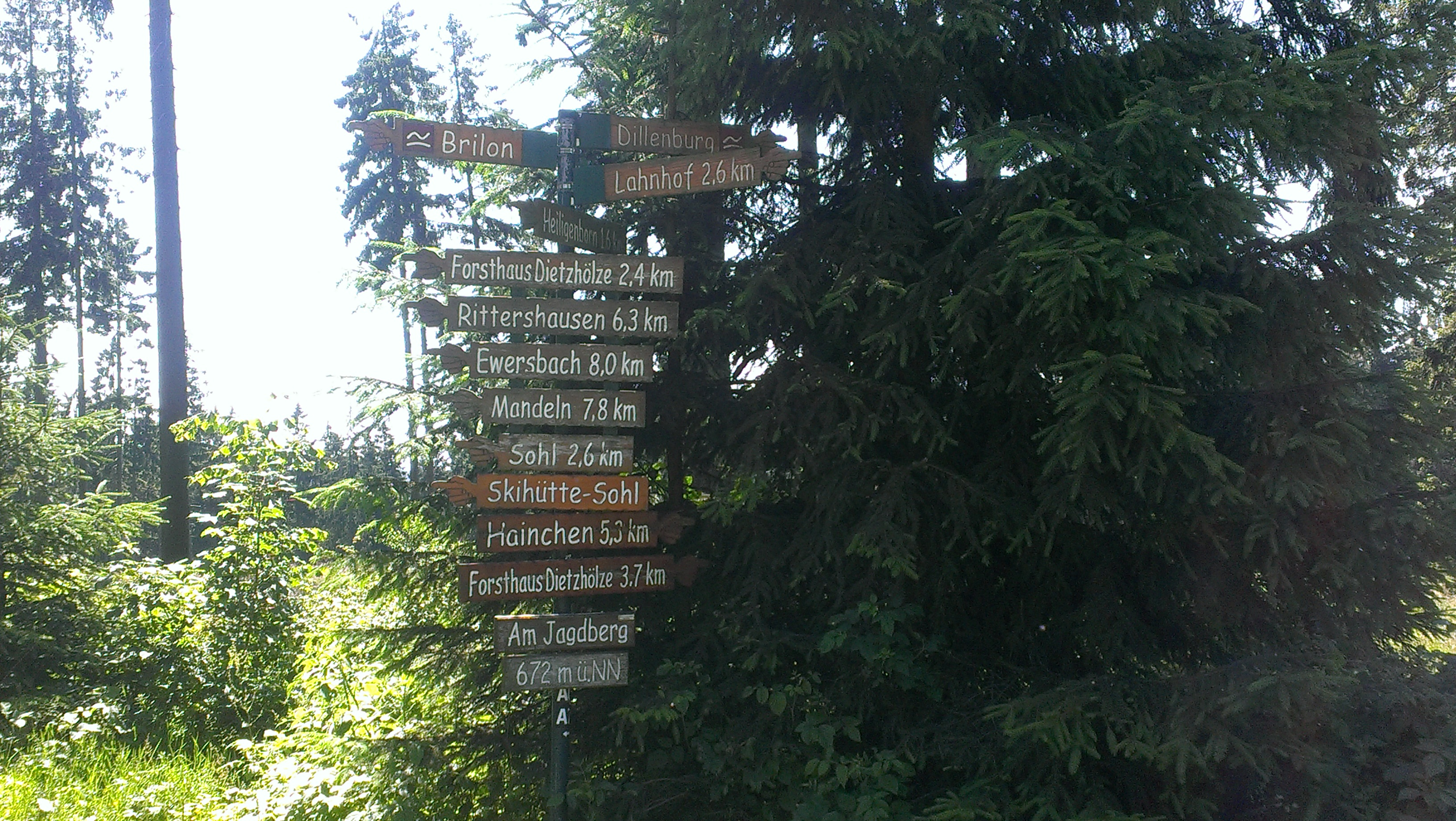 direction sign on Jagdberg (Netphen)